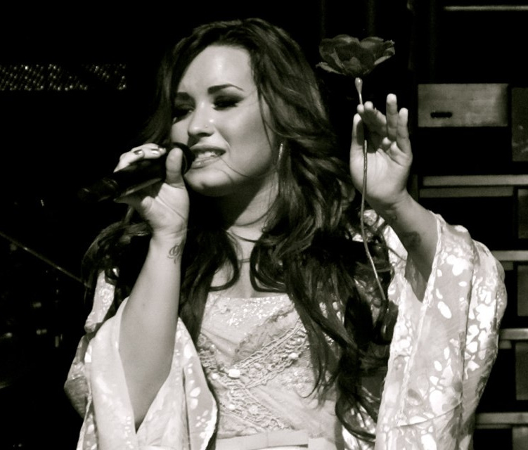 Demi Lovato: (We The Kings) in December 2011.